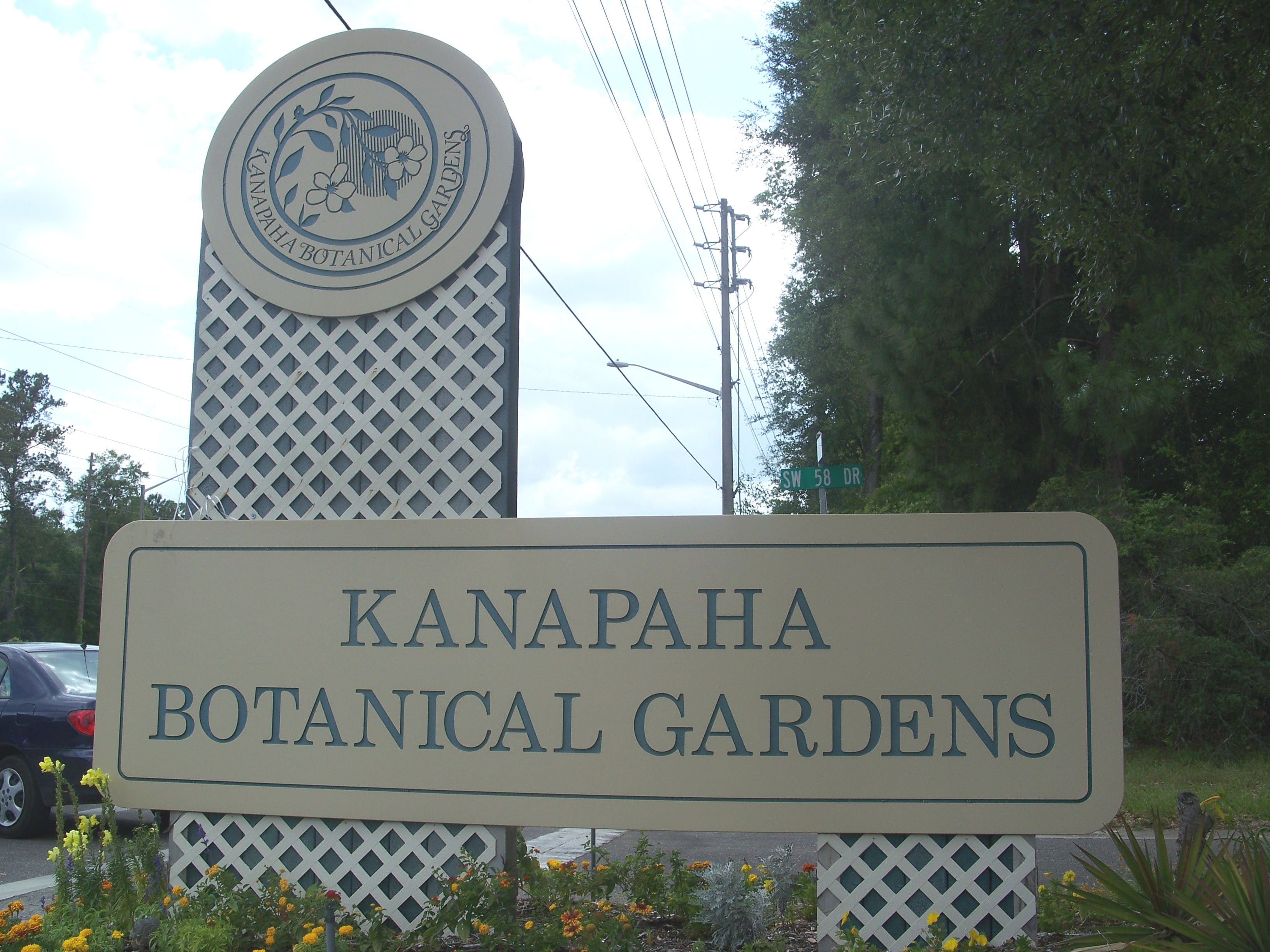 Gainesville, Florida: Kanapaha Botanical Gardens: Sign on Archer Road